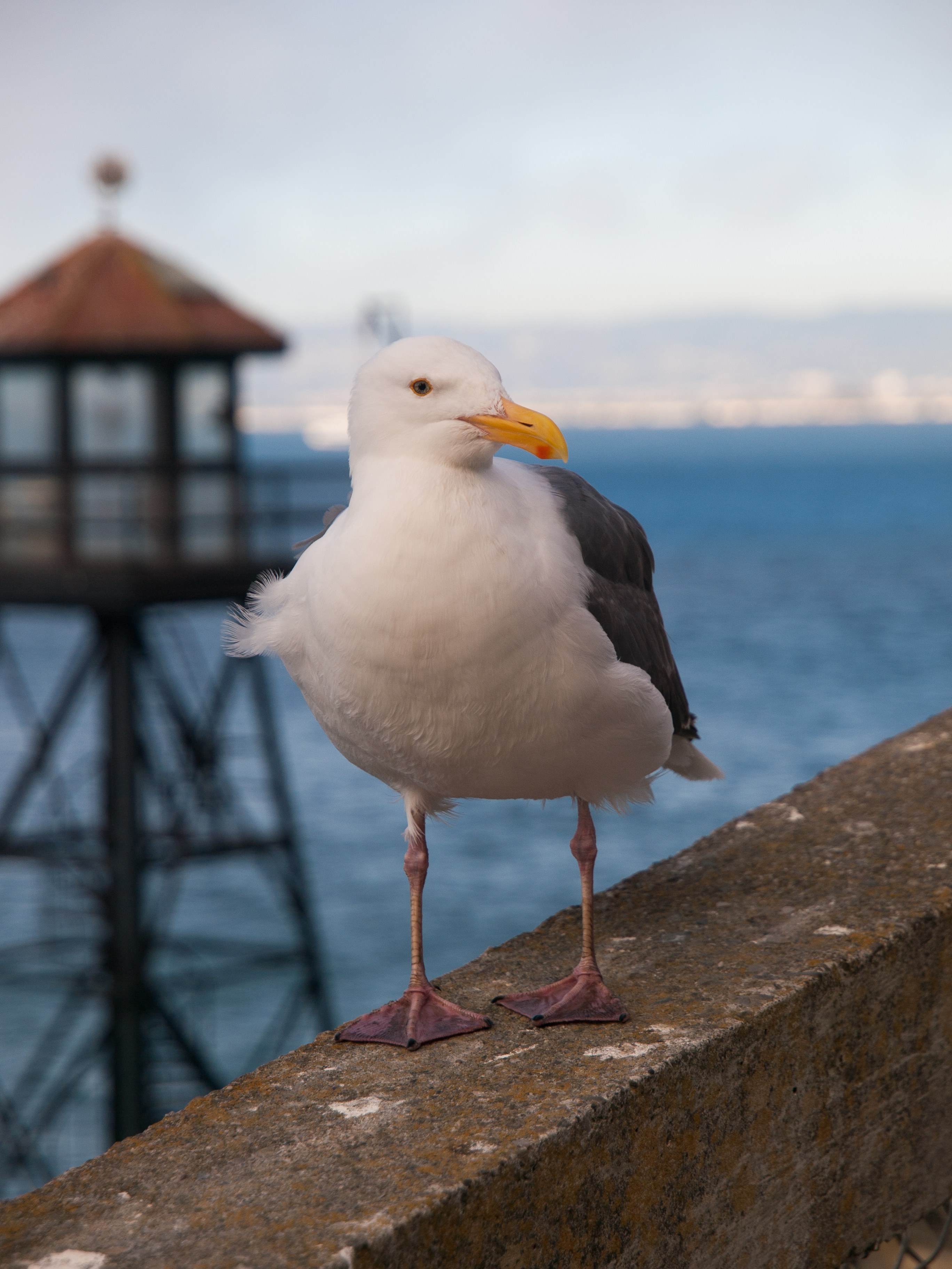 Seagull on a wall on Alcatraz island, San Francisco, California